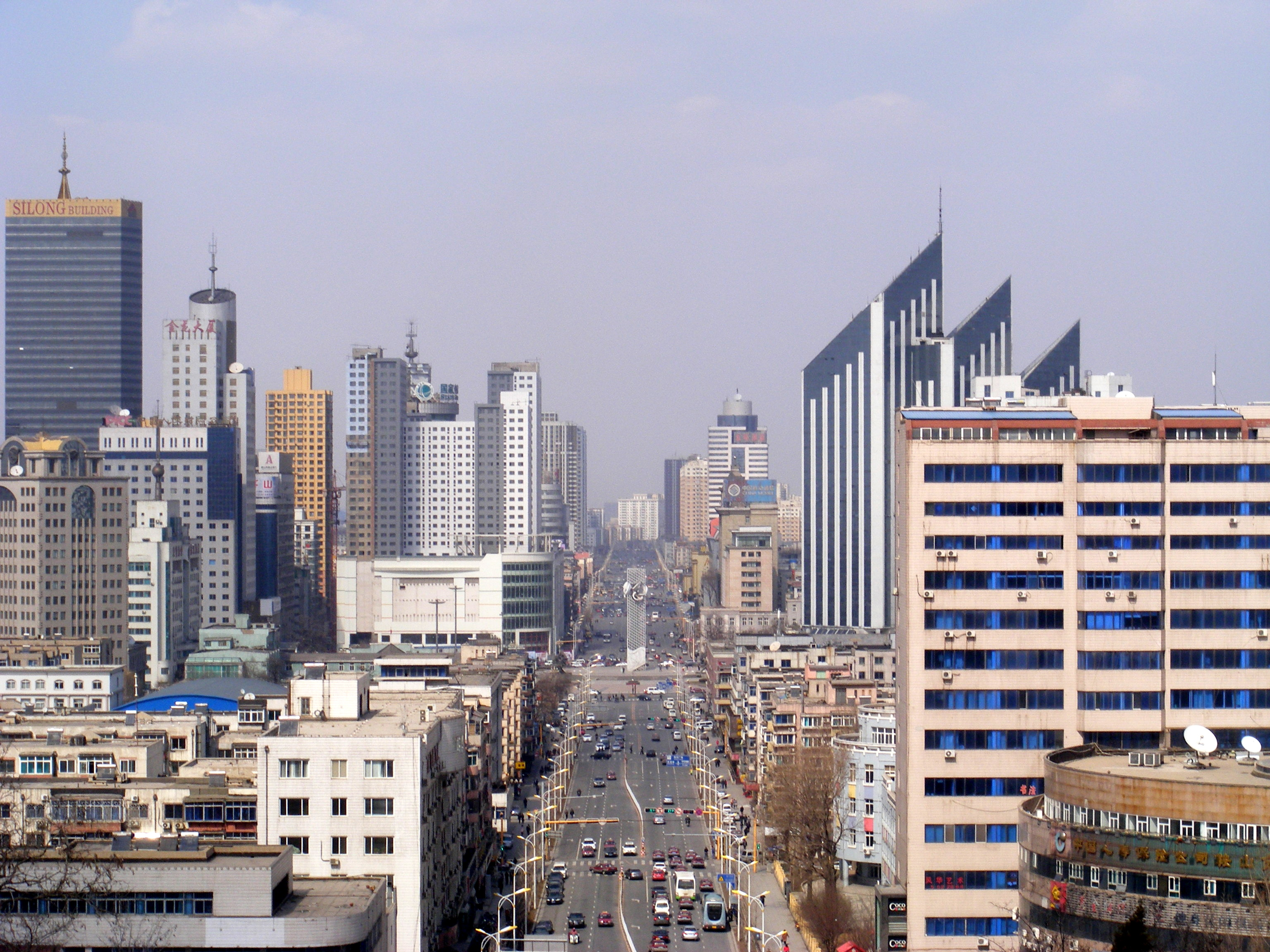 The Skyline of Anshan city (Liaoning, China) viewed from Lieshishan Park looking north along Shengli Road.